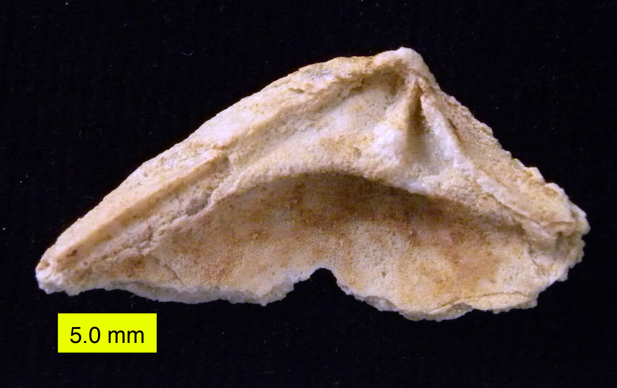 Venerid bivalve dentition; Wadi Umm Ghudran Formation (early Campanian), near Amman, Jordan (N 32° 09.241', E 36° 12.960').